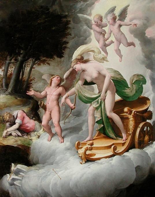 Scene from Ovid's Metamorphoses. Venus, the goddess of love is led to the young Adonis, with whom she is in love. Adonis is killed by a wild boar showing of Diana's wrath.